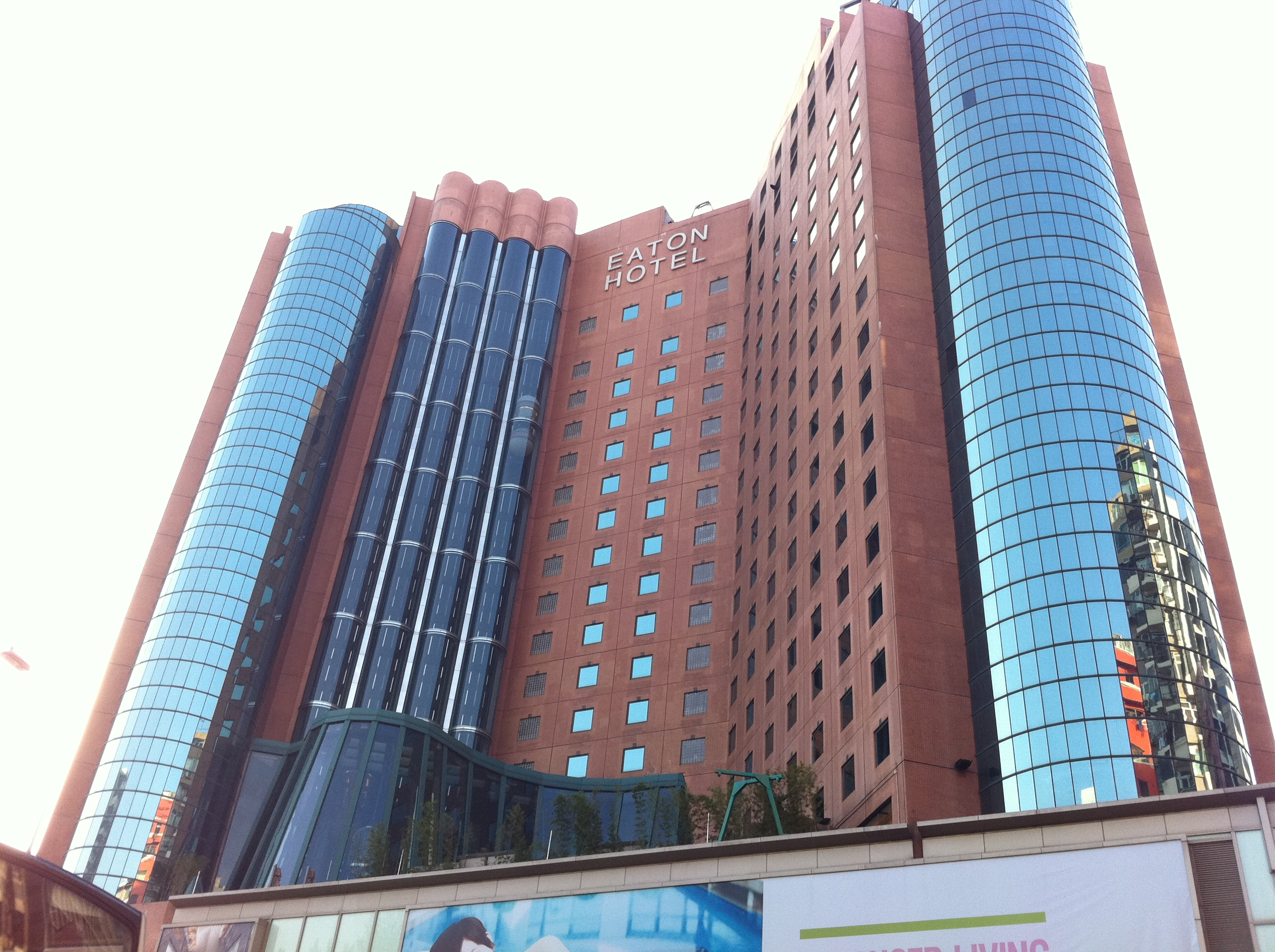 香港逸東酒店, Eaton Hotel, Nathan Road, Yau Ma Tei, Hong Kong